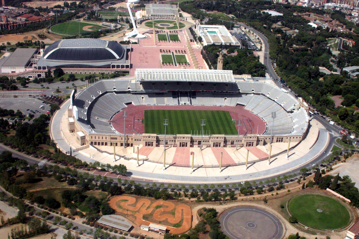 The Olympic Park in Barcelona with the Olympic Stadium, named Lluís Companys, in the foreground.